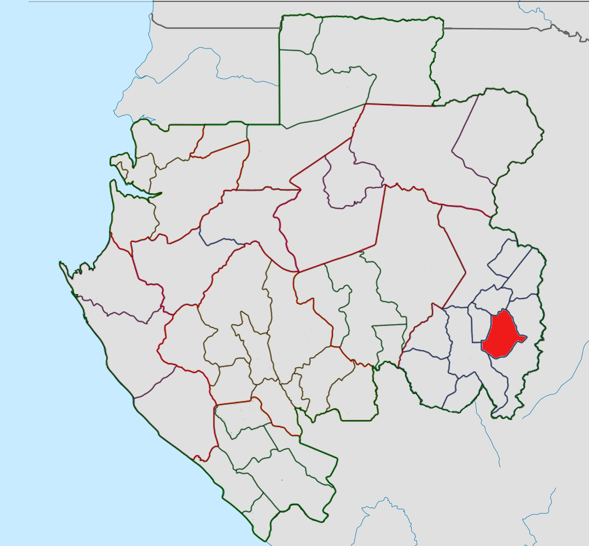 map of djouori-agnili